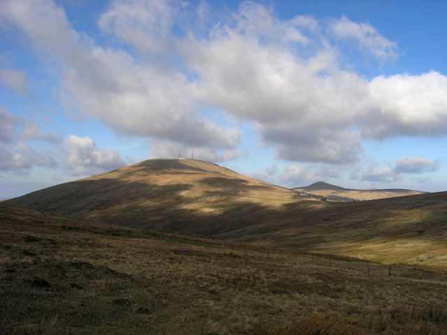 Snaefell. Snaefell (2036ft) with Clagh Ouyr (1808) behind (Southern peak of the North Barrule ridge) taken from the Brandywell road